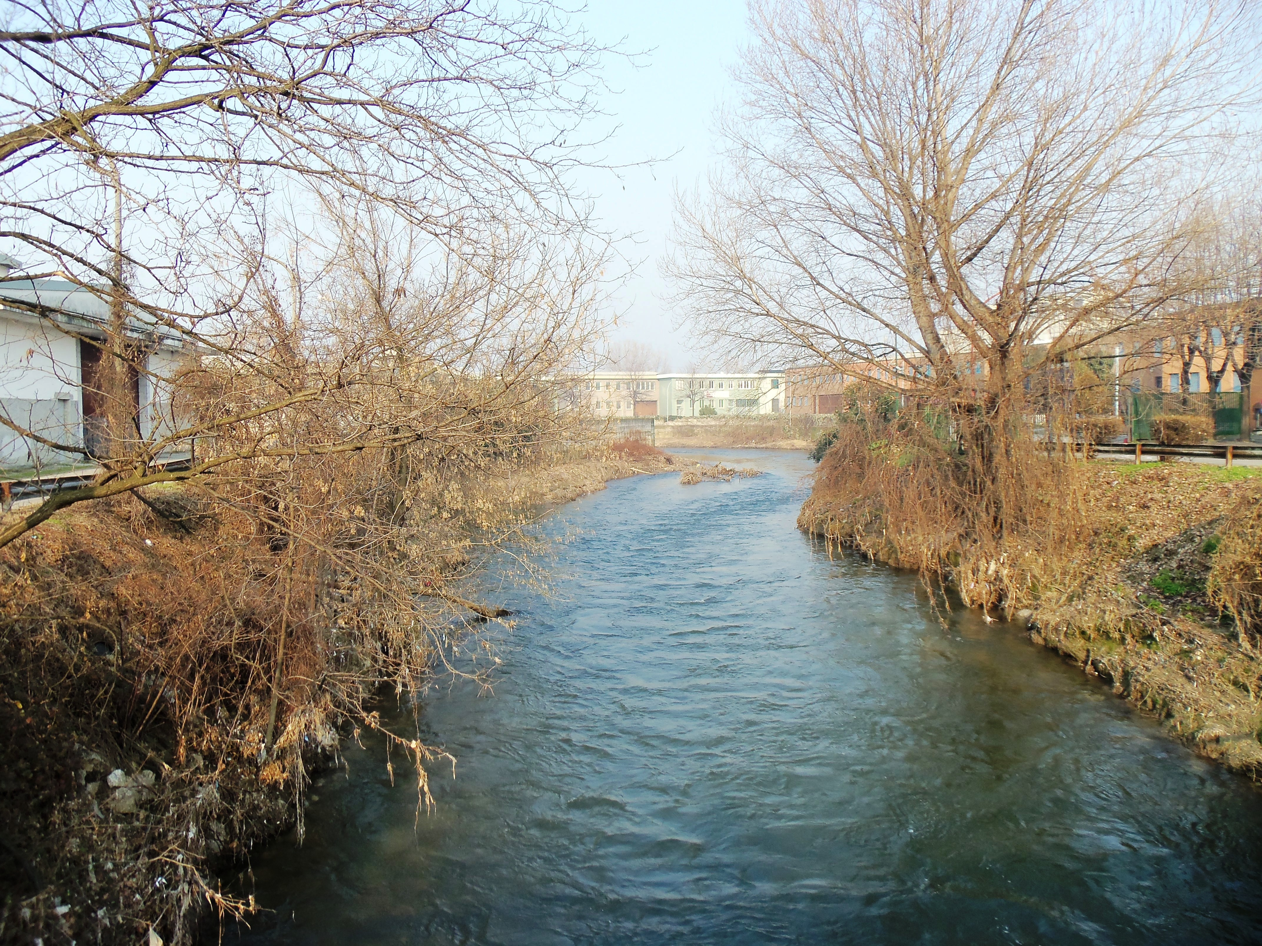 Cologno Monzese: the Lambro river